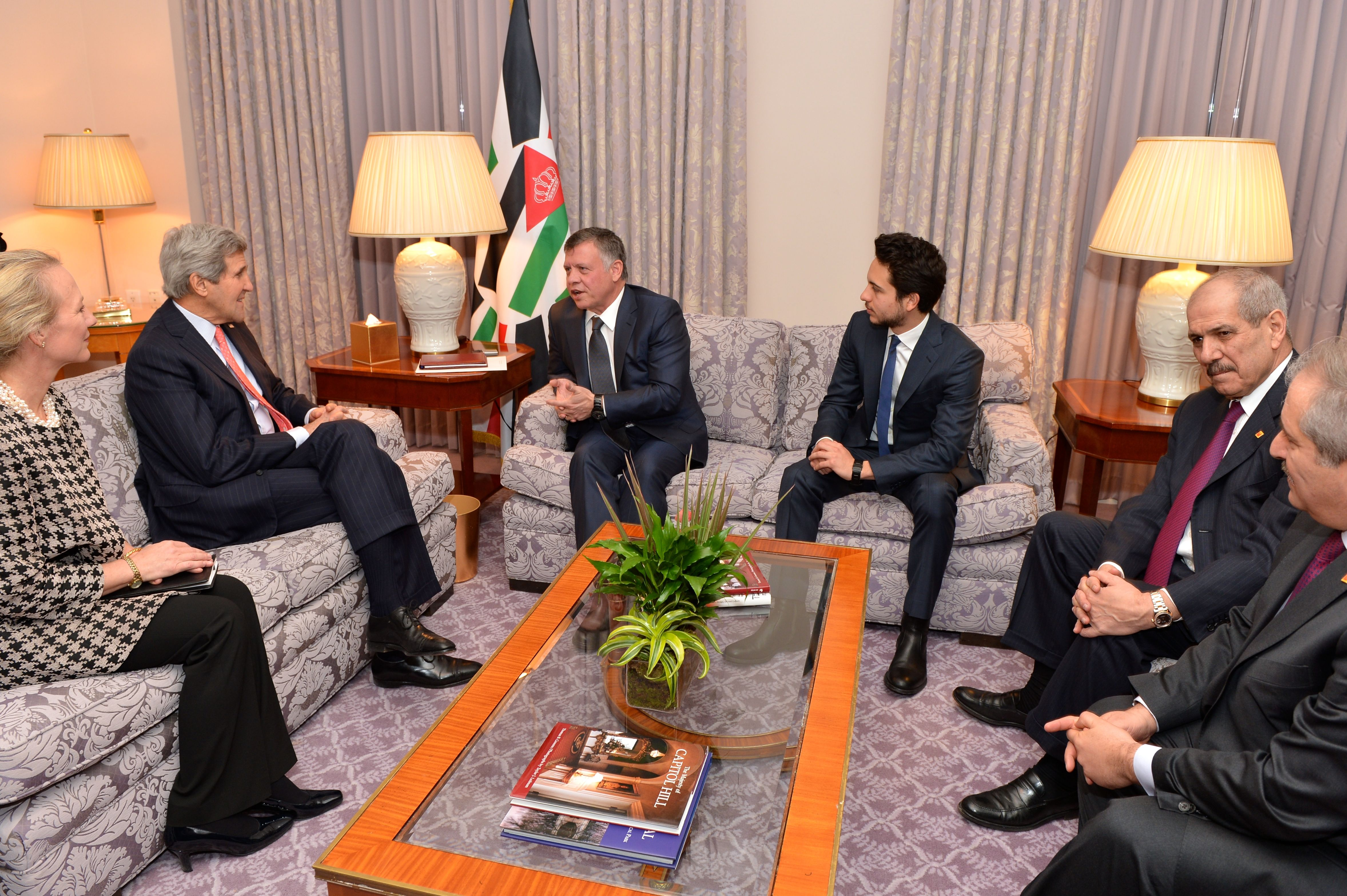 U.S. Secretary of State John Kerry, with U.S. Ambassador to Jordan Alice Wells, meets with King Abdullah II of Jordan, Crown Prince Hussein bin Abdullah, Jordanian Foreign Minister Nasser Judeh, and other top advisers in Washington, D.C., on February 3, 2015. [State Department photo/ Public Domain]